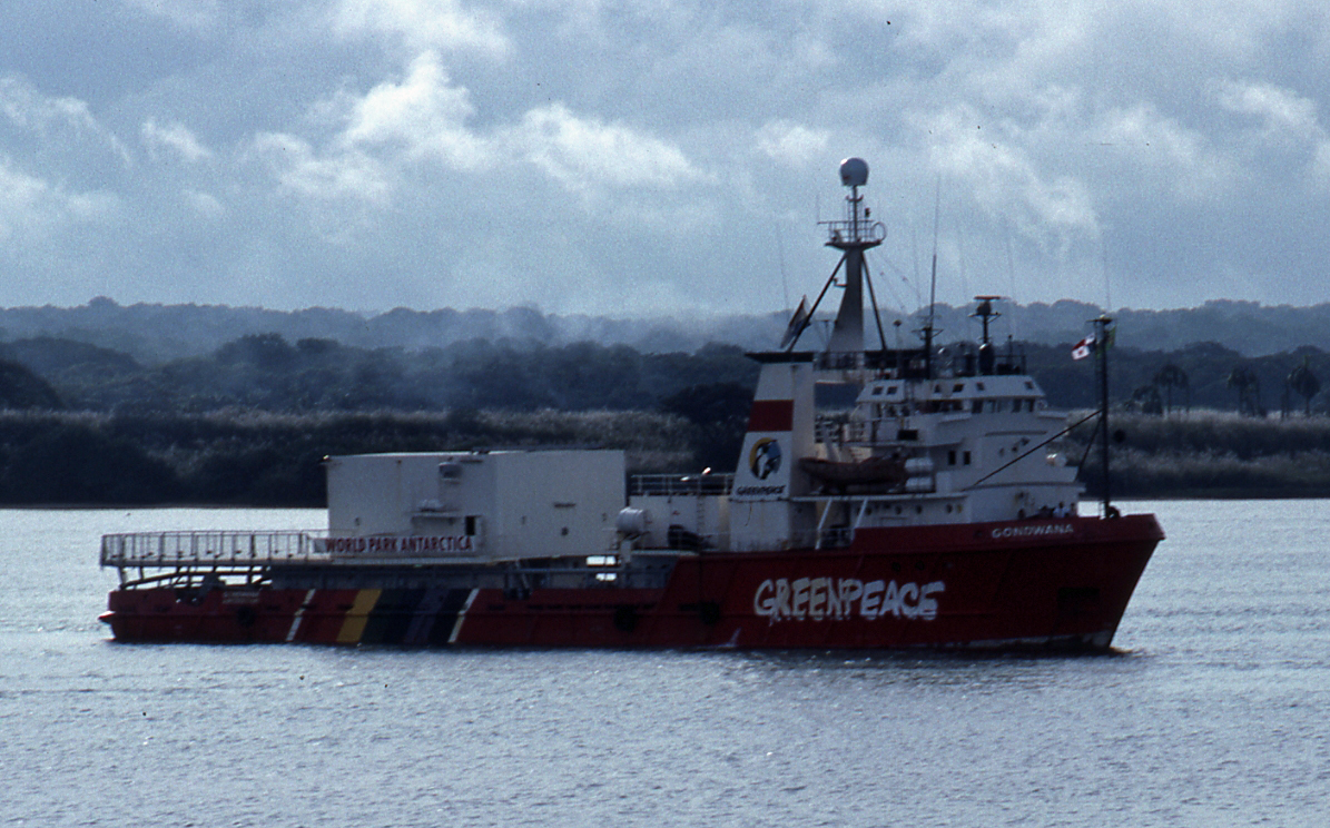 Greenpeace Ship Gondwana.The 61-metre, 1,435-tonne Gondwana was an ice-class vessel, better suited than the Greenpeace for the extreme conditions of the Antarctic. During its first voyage, in 1988/89, the Gondwana encountered the Japanese whaling fleet and, for several days, interfered with its operation; the Gondwana's crew also engaged in protests with French construction workers over the construction of a hard-rock airstrip on Antarctica. The Gondwana made three more voyages to the Antarctic over the years and, on its final expedition in 1991/2, removed the Greenpeace base after five years of operation. The Gondwana was sold in 1994.